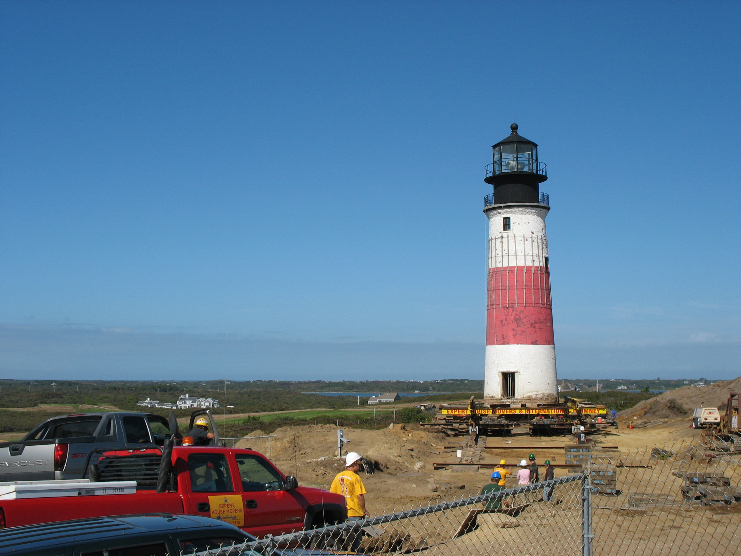 Threatened by erosion and decommissioned by the U.S. Government, the lighthouse was moved away from the edge of the bluff in 2007, supported by the 'Sconset Trust. Image: n. SC655-2